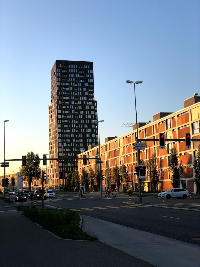 Picture of the Giessenturm from the nearby Ueberlandstrasse in Dübendorf